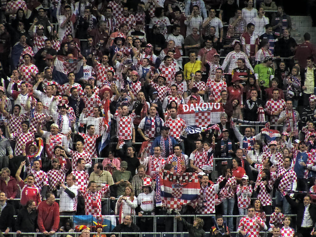 Croatian Fans, on January 24th 2007 in Mannheim , SAP-Arena (Germany), during the Handball World Championchip game Denmark - Croatia 26:28 (12:15)